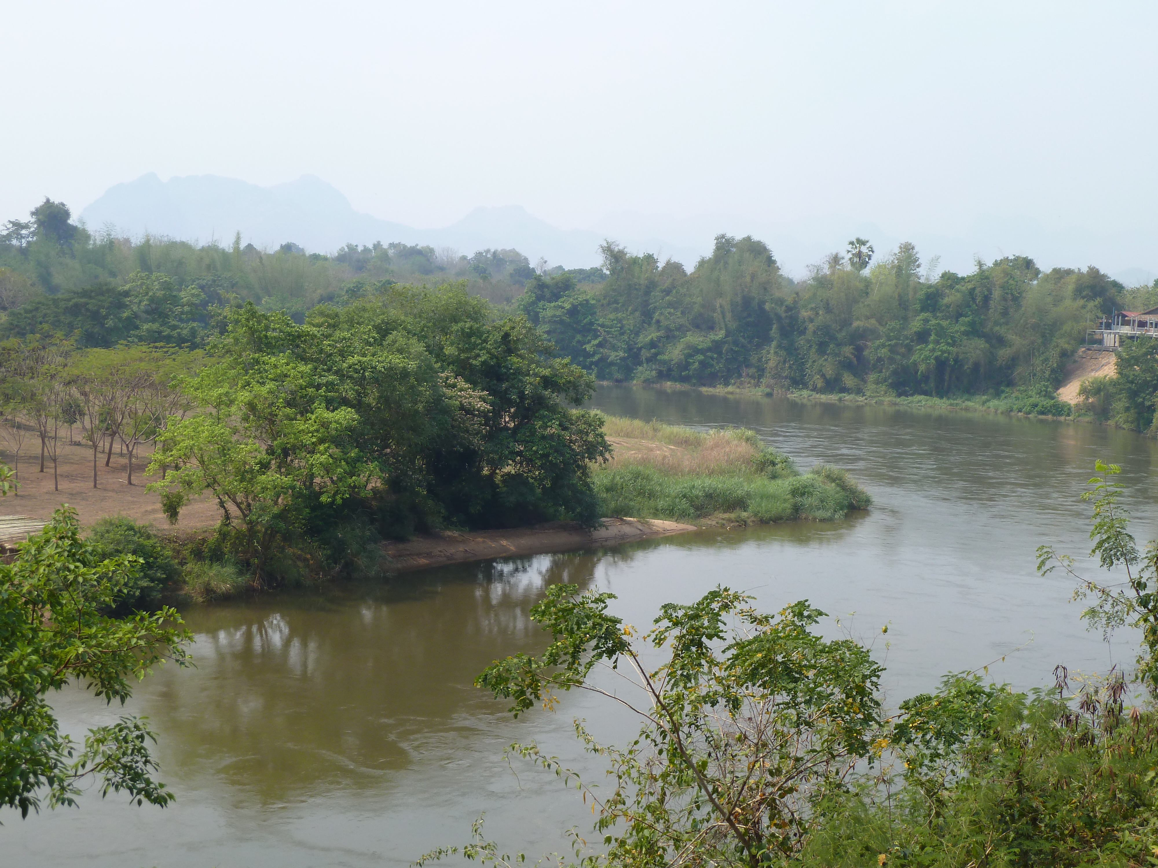 Kwai River ( Khwae Yai), Kanchanaburi, Thailand